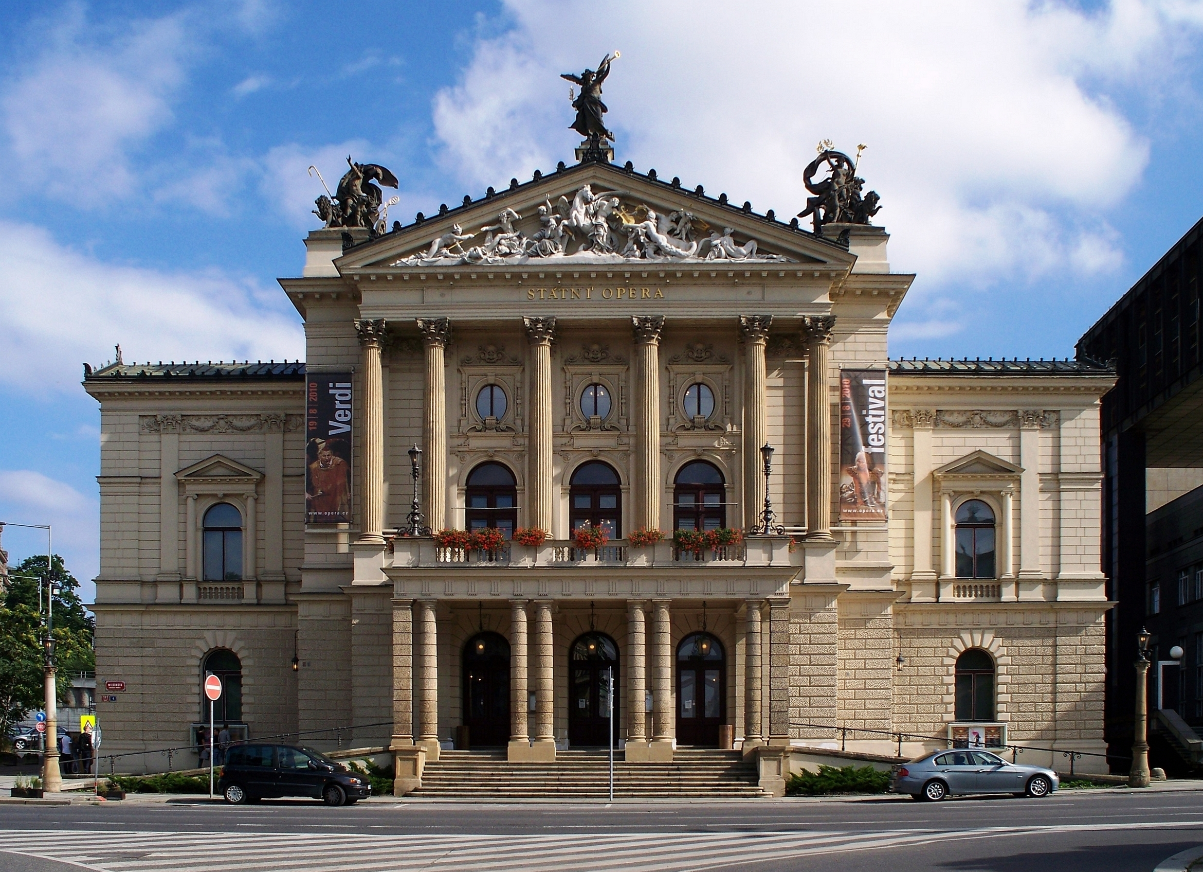 The Státní opera in Prague, 2010.